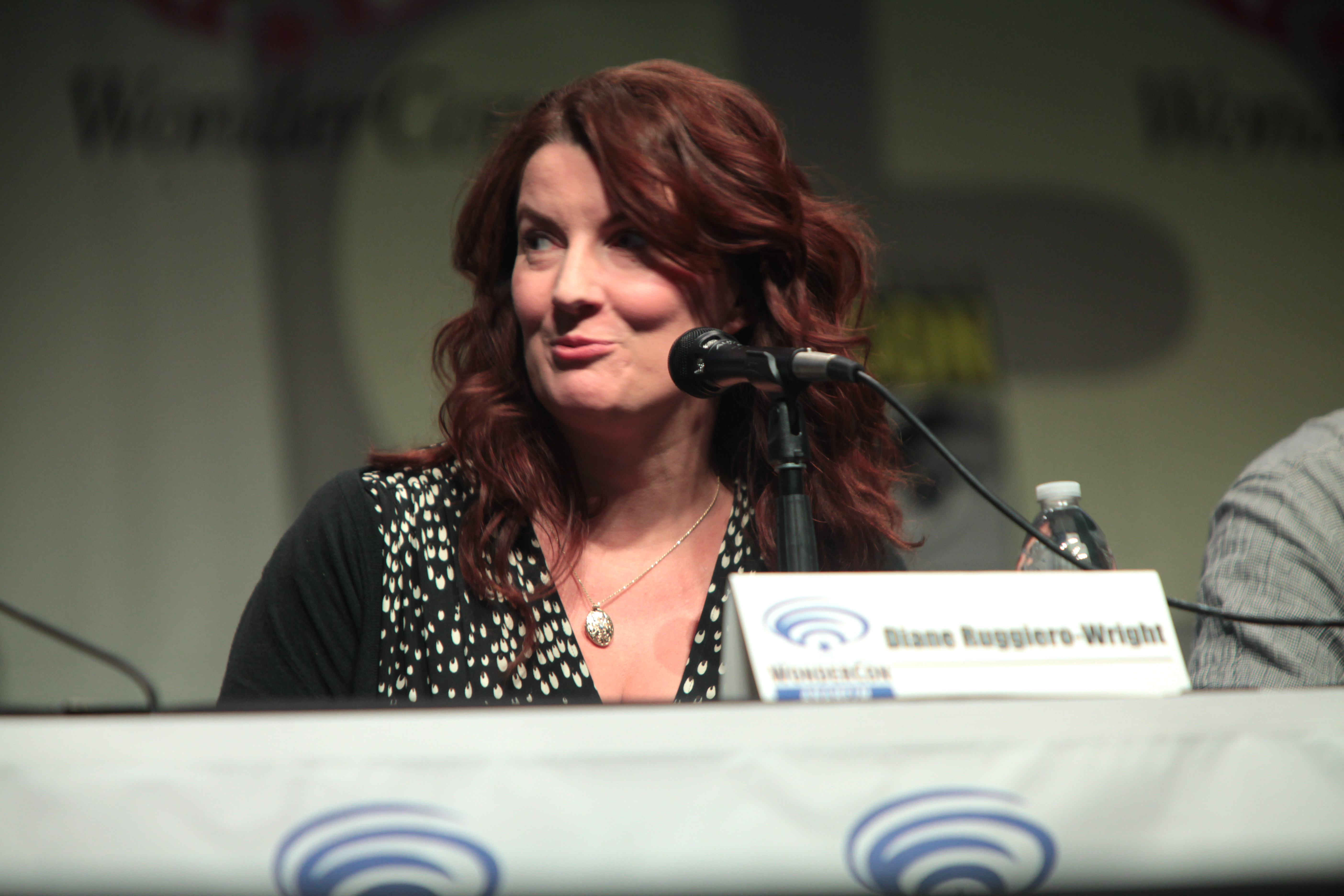 Diane Ruggiero-Wright speaking at the 2015 Wondercon, for "iZombie", at the Anaheim Convention Center in Anaheim, California.